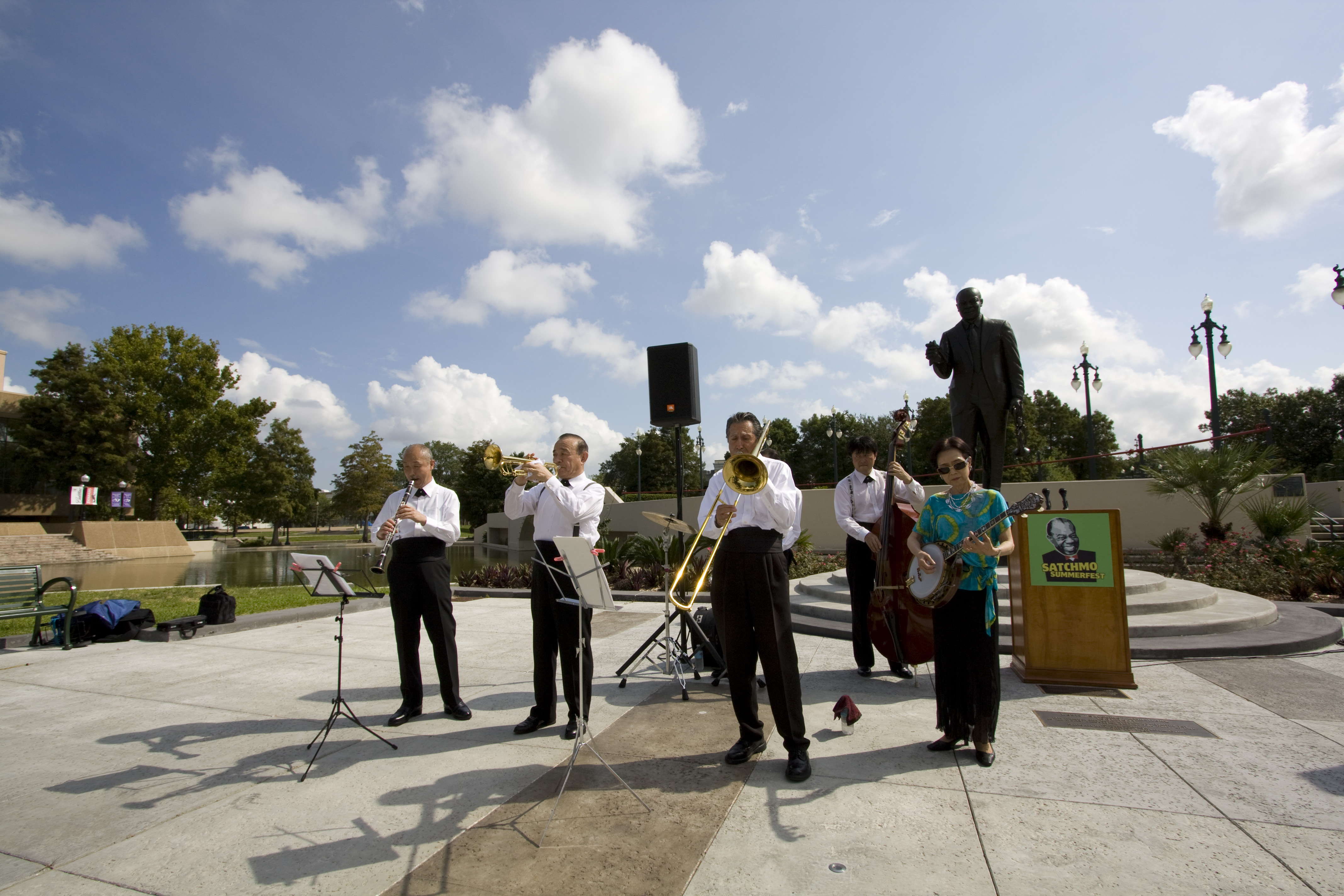 Yoshio Toyama and the Dixie Saints play at Armstrong Park, New Orleans, to kick off Satchmo SummerFest 2012